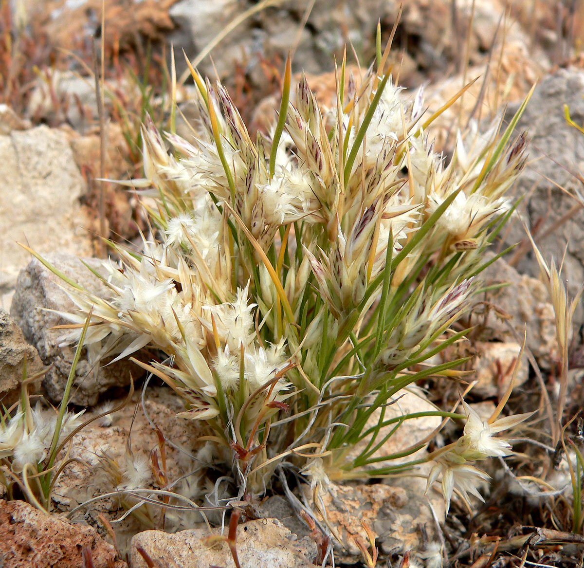 Photo of Erioneuron pulchellum (fluff grass) on hillside west of Las Vegas, Nevada, just outside Red Rock Canyon